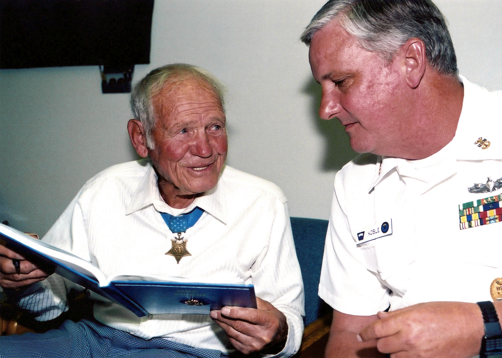 U.S. Navy retired Lieutenant John W. Finn (left) is the sole surviving Medal of Honor recipient from Pearl Harbor and the oldest living Medal of Honor recipient. U.S. Navy Master Chief Quartermaster (QMCM) Kobel (right), Command Master Chief of the Naval Leadership Training Unit (NLTU), speaks with John W. Finn about an entry in the Chief’s charge book. Location: U.S. Naval Amphibious Base, Coronado, California.